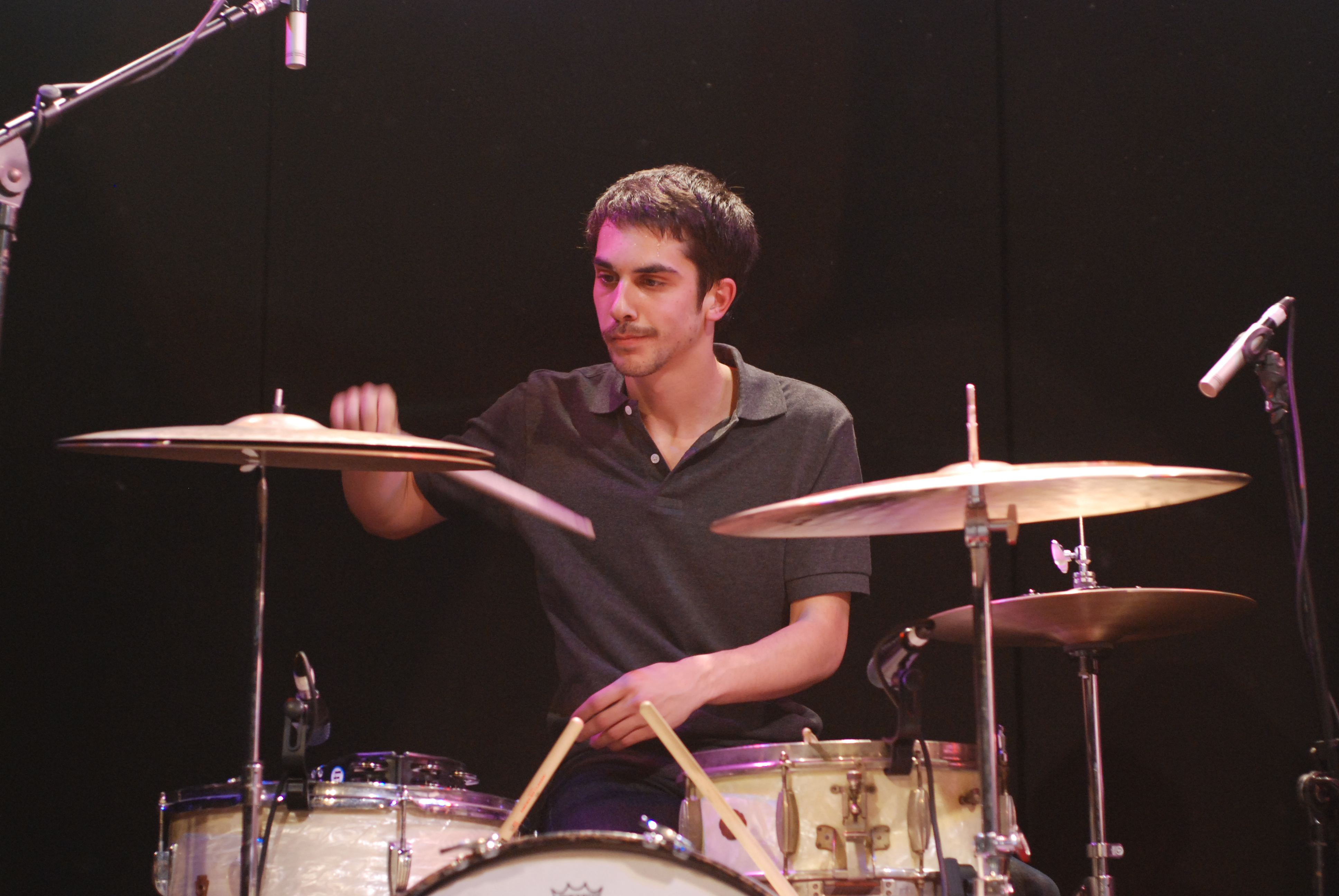 Matt Aveiro, drummer of Cold War Kids